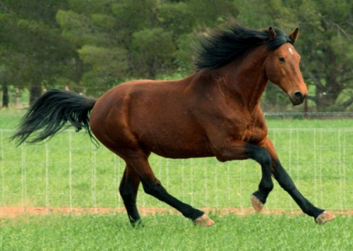 CM Oberon Toblerone - a Cleveland Bay x Holsteiner Stallion, standing 17.3hh. Tobi is a lovely big horse with a big stride, and ideal for producing athletic Cleveland Bay Sporthorses to lighter built mares for all areas of competition.